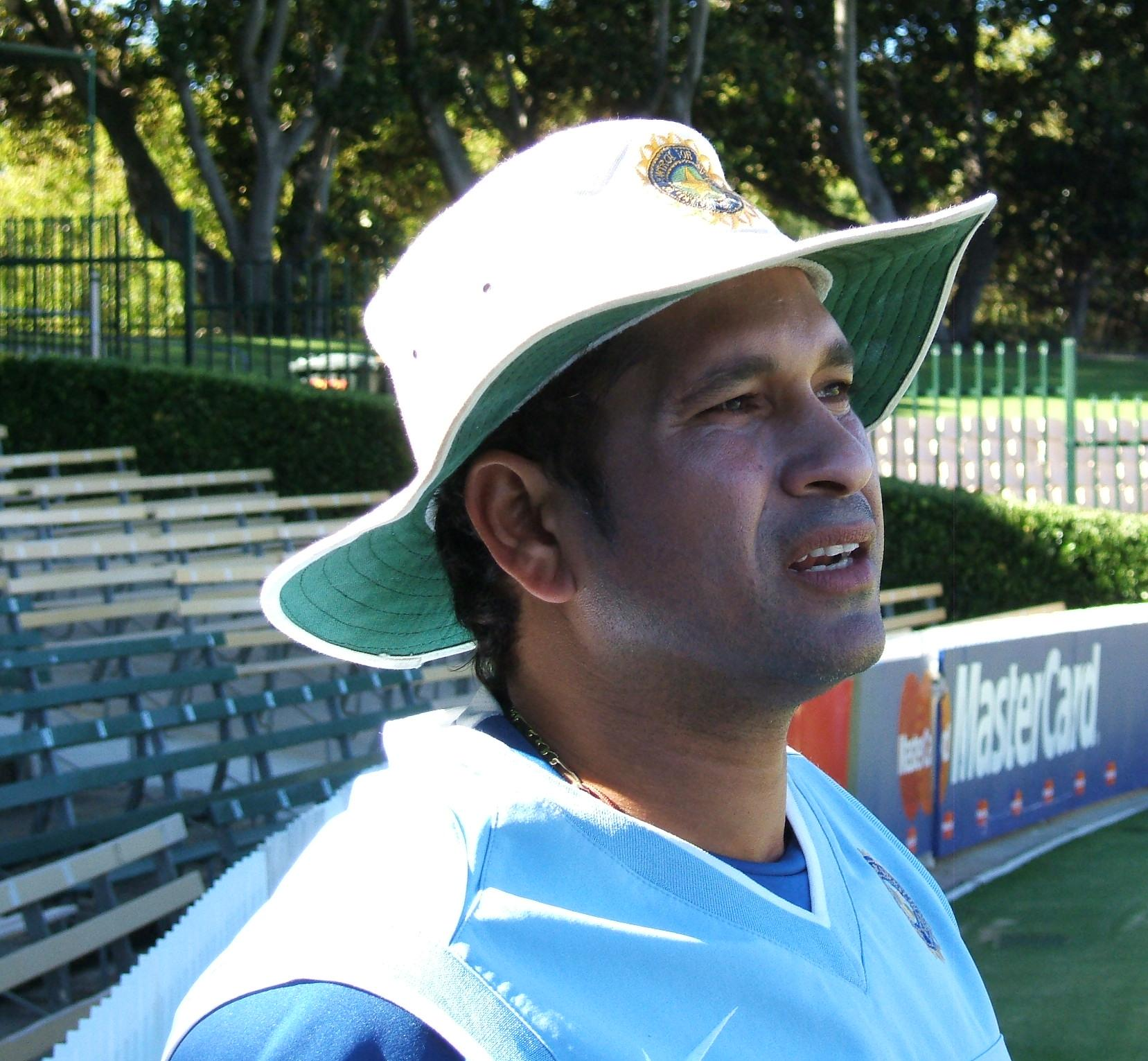 Sachin Tendulkar at Adelaide Oval